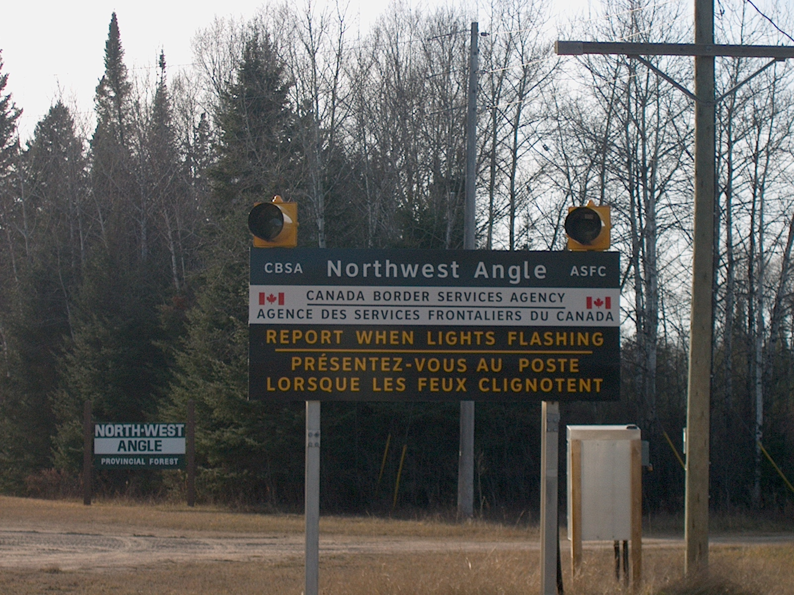 US-Canada border at the North West Angle. Manitoba Hwy 525.